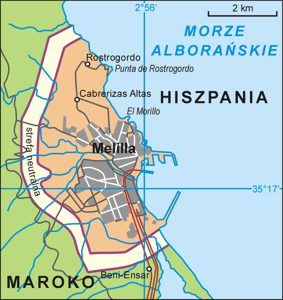 Map of Melilla with Polish labels. Mapa Melilli po polsku.